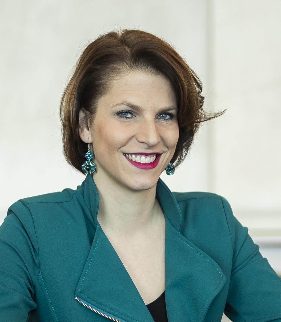 Fotocredit: BKA